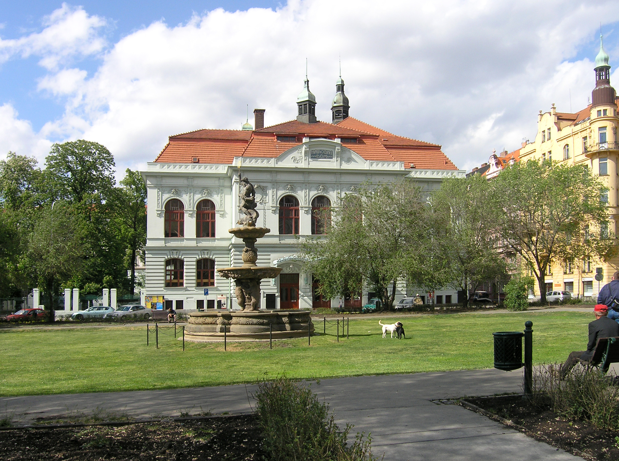 14. října square at Smíchov, Prague. National house